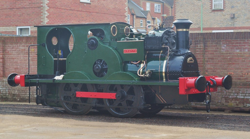 Sirapite the Works Shunter Sirapite is a unusual and rare shunting engine with and identity problem! Being part traction engine and part locomotive, produced by traction engine manufacturer Aveling and Porter in 1906 for Gypsum Mines Ltd. The engine was bought by R.Garret in 1929 to replace horses, shunting goods between the works and Leiston railway station. 1962 saw Sirapite retire after many years of service, later being bought and taken away by Sir William MacAlpine. However she was neglected and in 2003 was brought to the museum for restoration. Arriving in 2004 many years and over £50,000 of lottery money has meant she is back in steam and the place she worked.